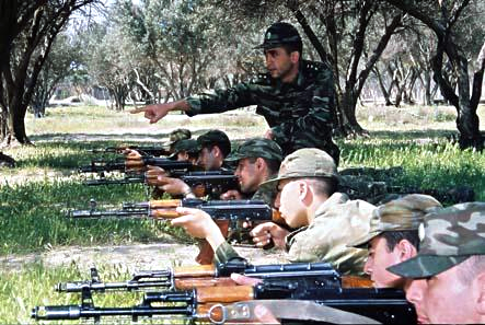 Picture from: [1], exact location: [2] uploaded by owner.